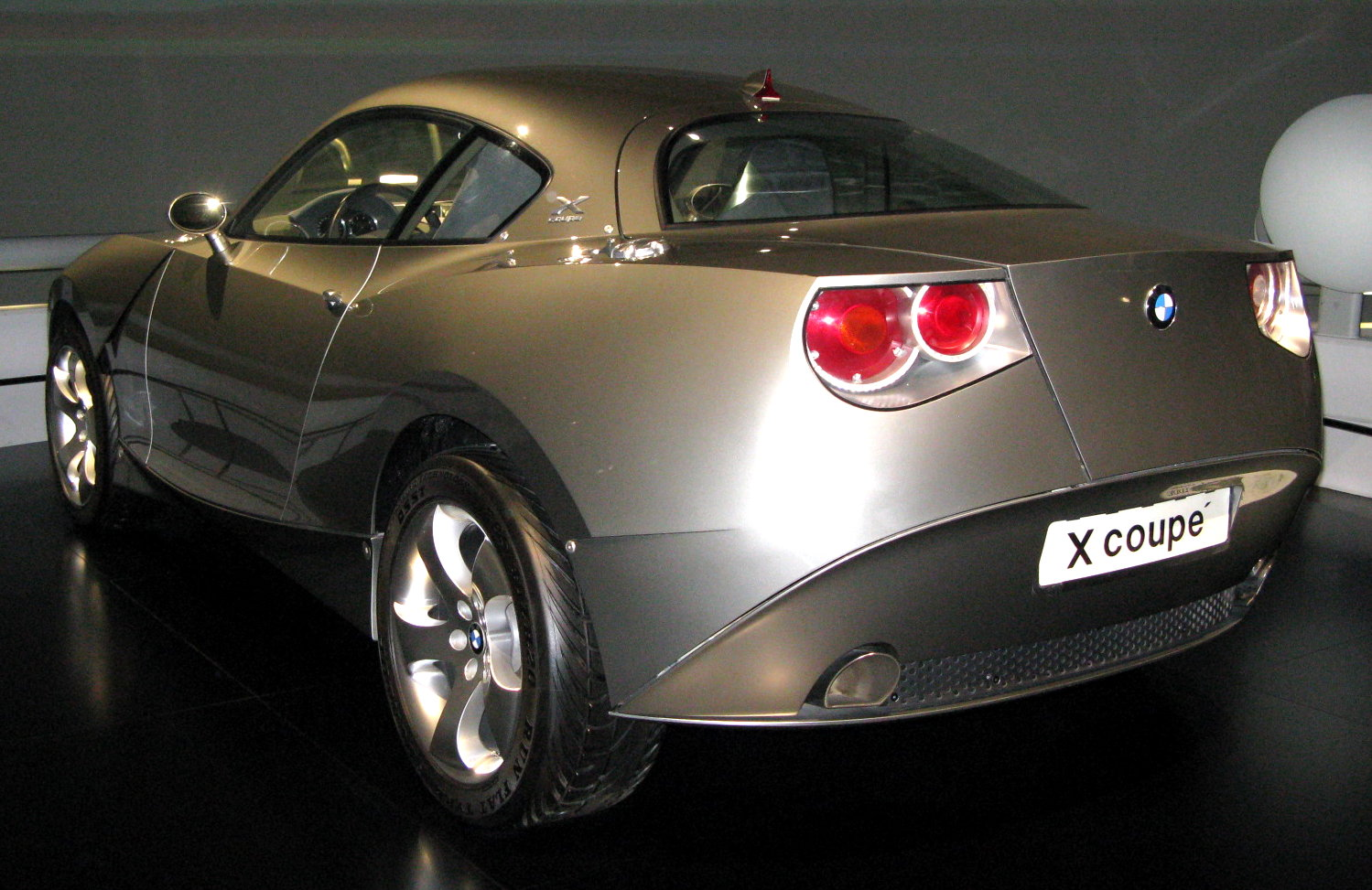 2001 BMW X-Coupe prototype